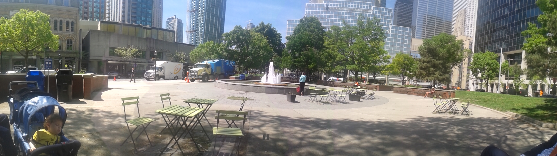 The fountain at the centre of Berczy Park, 2014 05 30